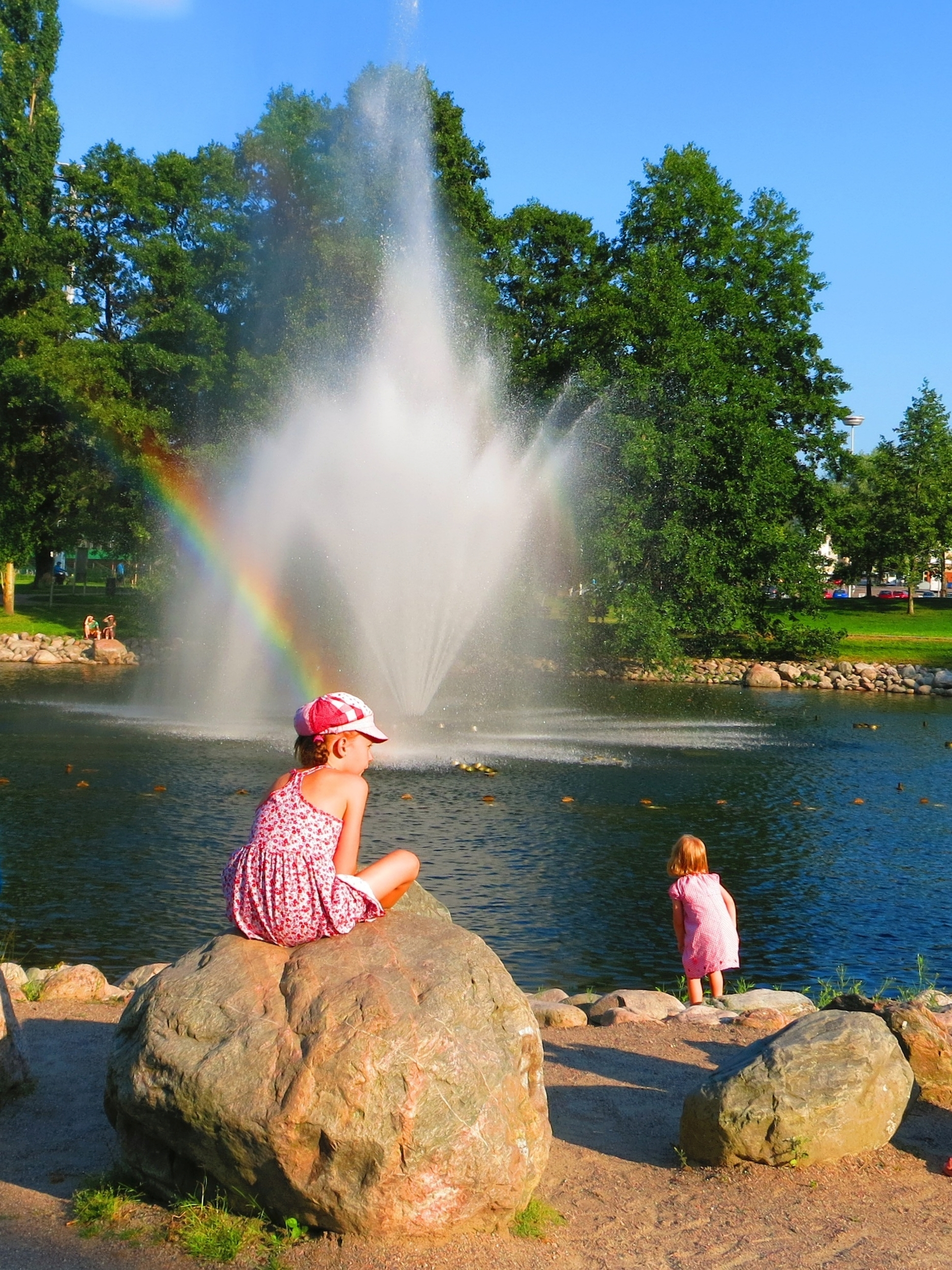 Fountains with music and light effects in Pikku-Vesijärvi Park (Lahti, Finland)